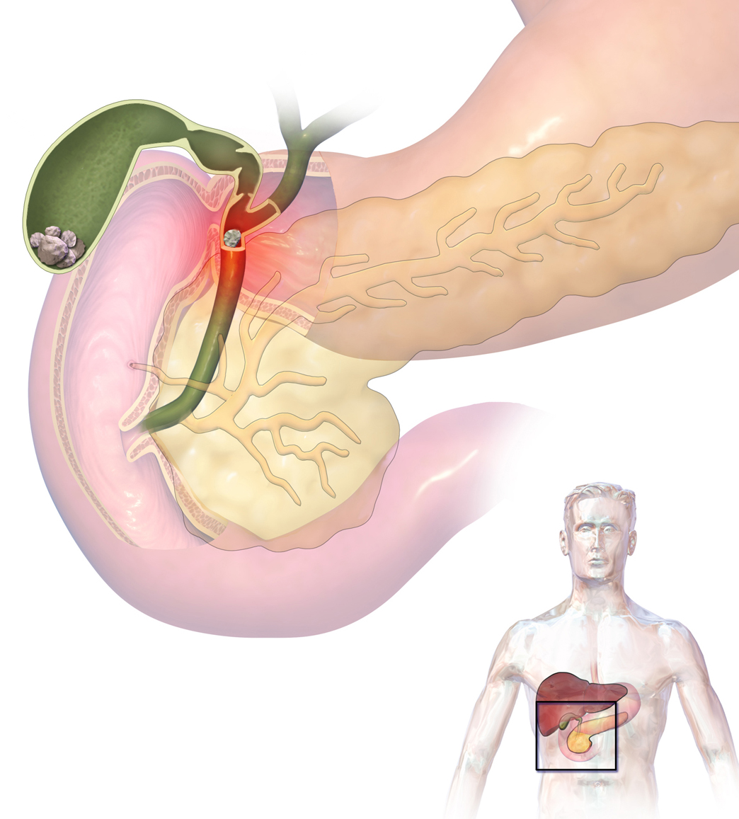 Gallstones and Ascending Cholangitis. This is an edited version of the source image made for use in the "Anatomist" iOS and Android app and shared here under the terms of the source image's Share Alike Creative Commons license.